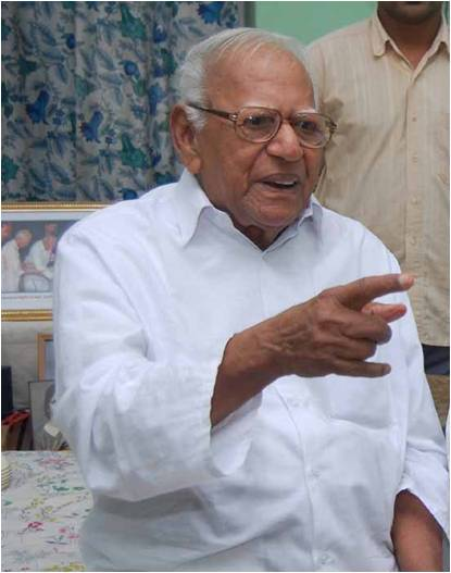 Picture Of Justice V.R.Krishna Iyer